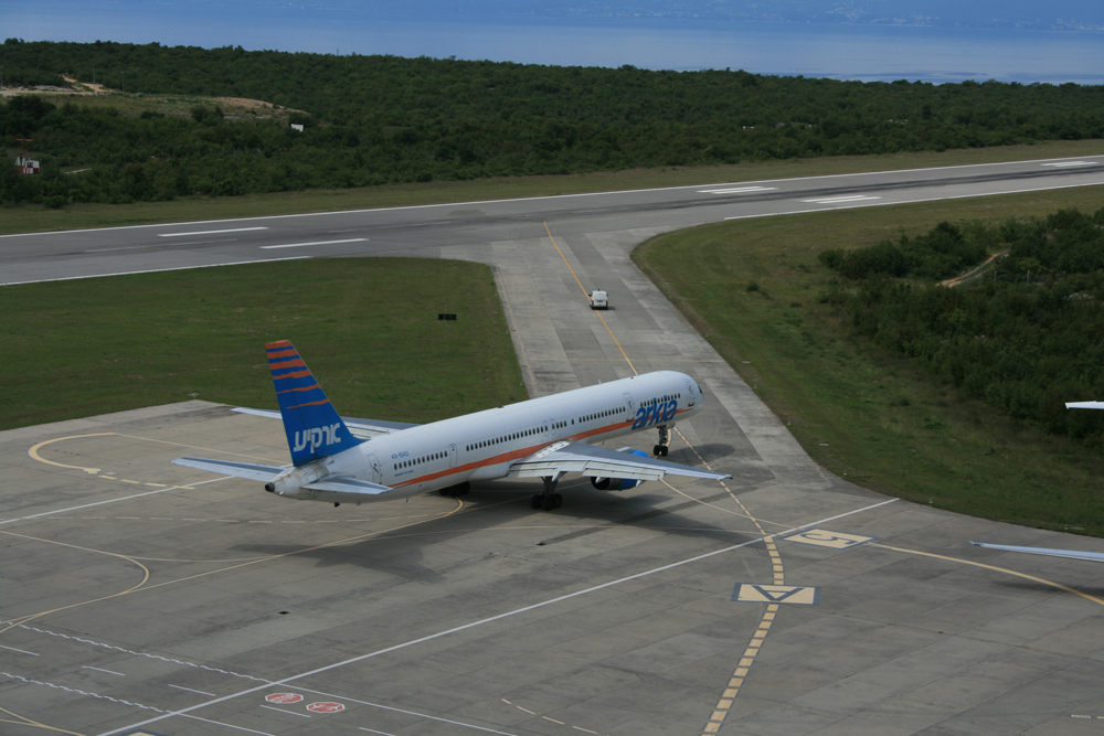 Departure of Arkia's Boeing 757-300 to Tel Aviv.